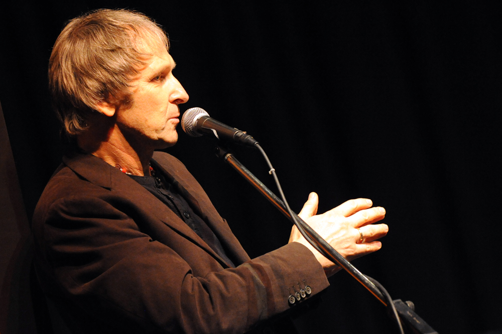 Artur Dutkiewicz - Polish jazz piano player during a benefit concert for Tomasz Szukalski in Warszawa, Poland.